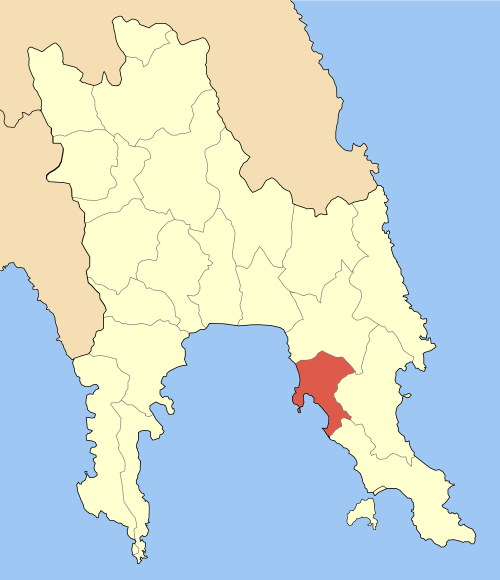 Locator map of Asopos municipality (Δήμος Ασωπού) in Lakonia prefecture (Νομός Λακωνίας) in Greece.